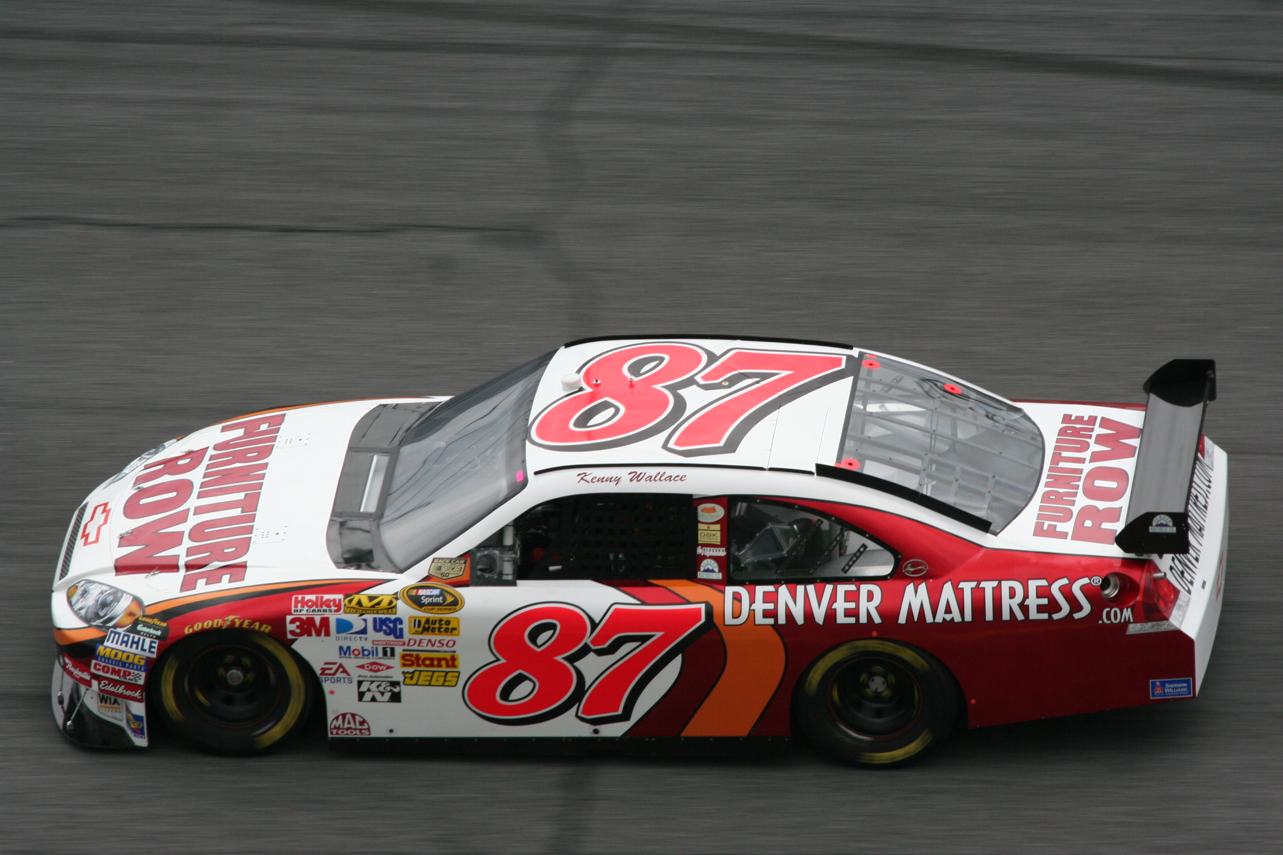 Shot by The Daredevil at Daytona during Speedweeks 2008Kenny Wallace Furniture Row Chevy Impala